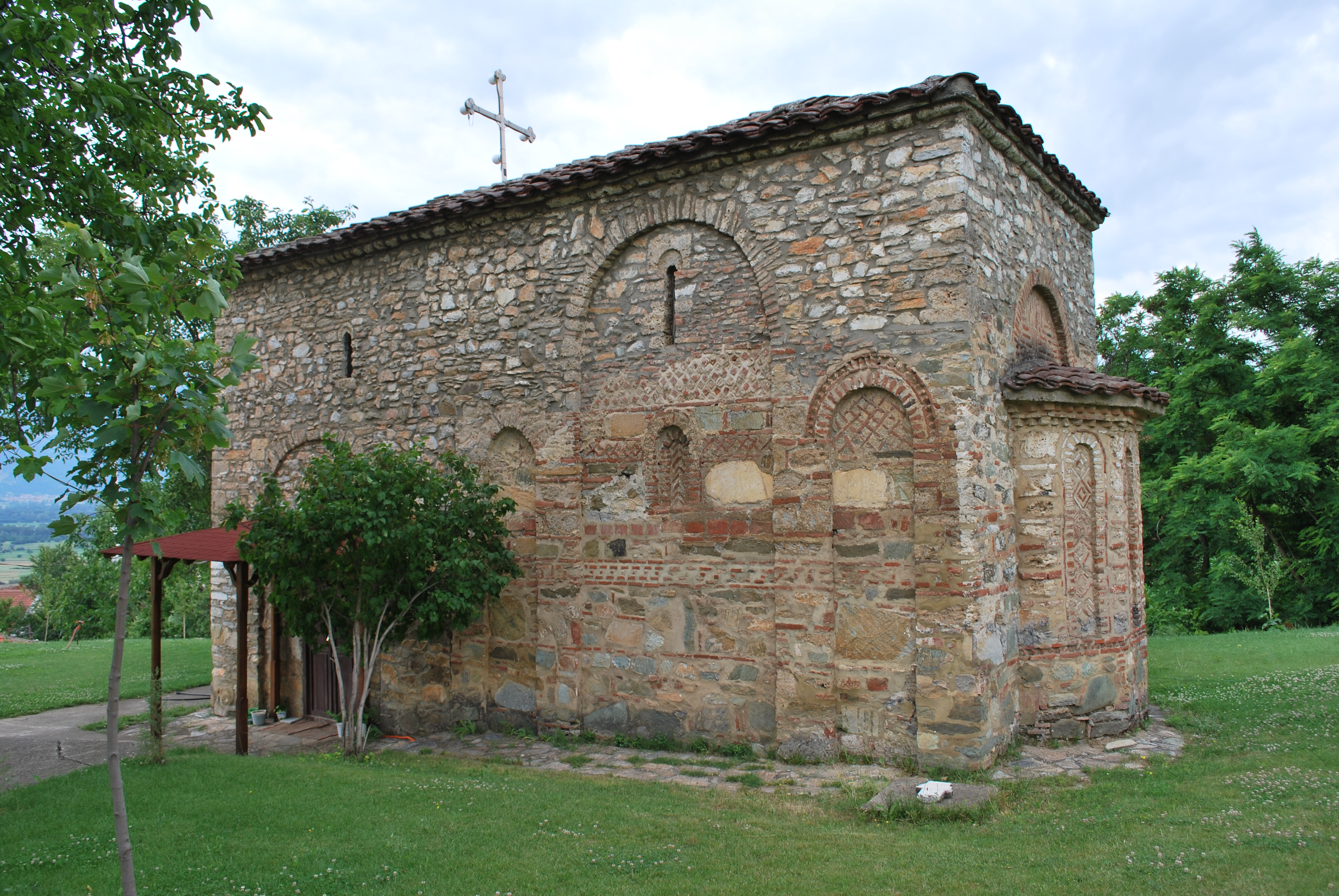 St. Nicholas Church in Čelopek, near Tetovo, Macedonia